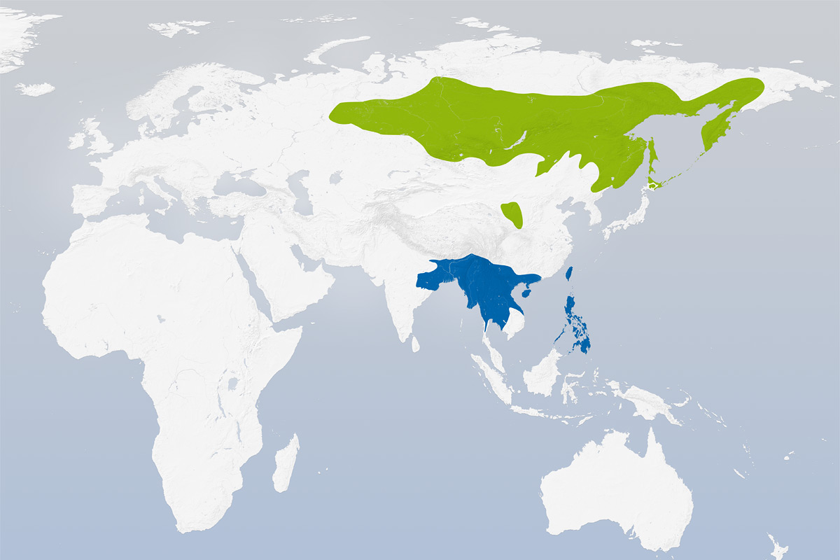 Distribution Map of Luscinia calliope (green – breeding areas, blue – wintering areas)